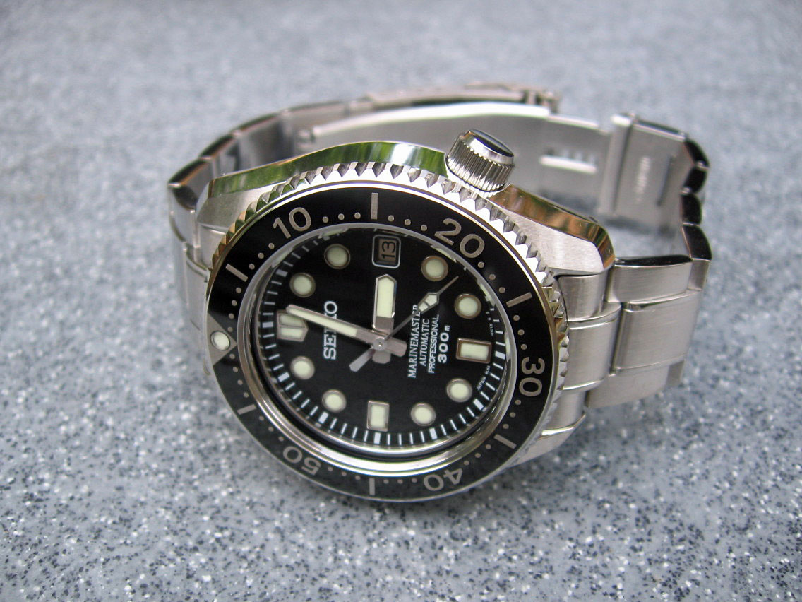 Seiko SBDX001 Marinemaster Automatic Professional Diver's 300 m (helium safe/for mixed-gas rated tool watch suitable for professional saturation diving). It is equipped with a special L-shaped gasket and one-piece case to render it proof against helium gas. This high-end Seiko diving watch has a high beat rate (28,800 BPH = 8 Hz) 8L35 automatic movement with 26 jewels that features a 50 hour power reserve, manual winding and a hack function (stopping the movement of the second hand).